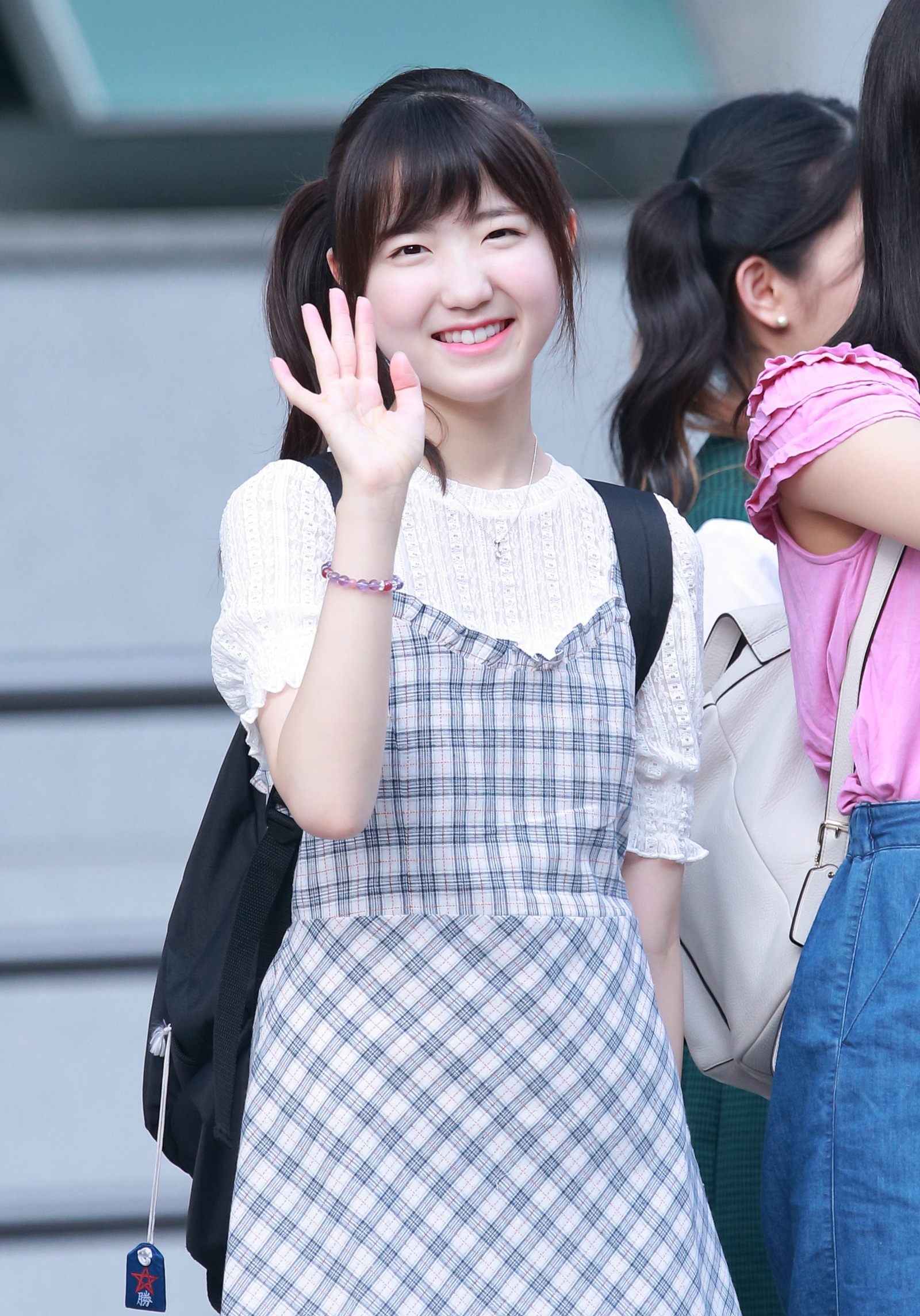 Honda Hitomi going to a Produce 48 evaluation on August 5, 2018